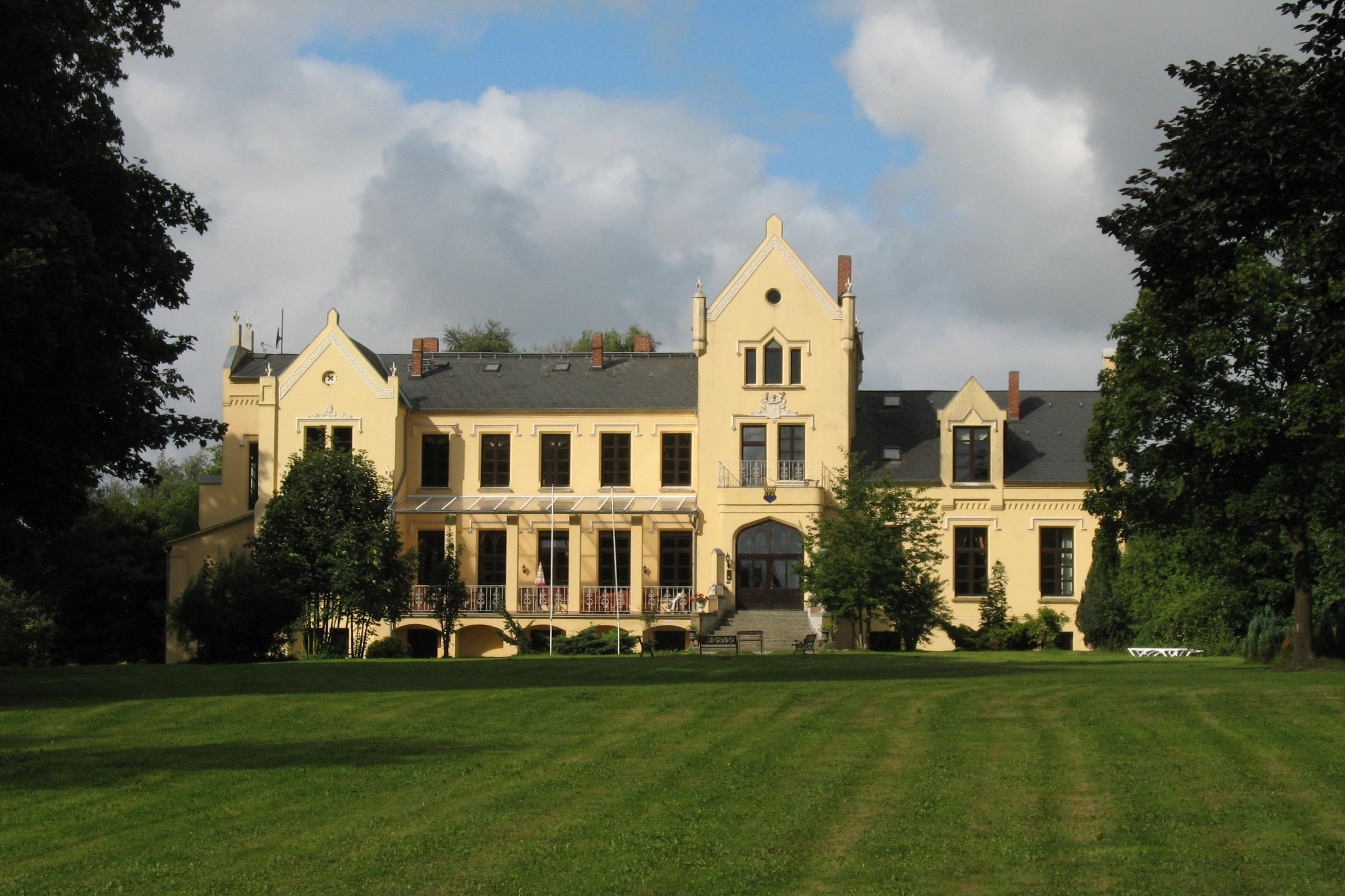 Manor house in Schwasdorf-Poggelow in Mecklenburg-Western Pomerania, Germany